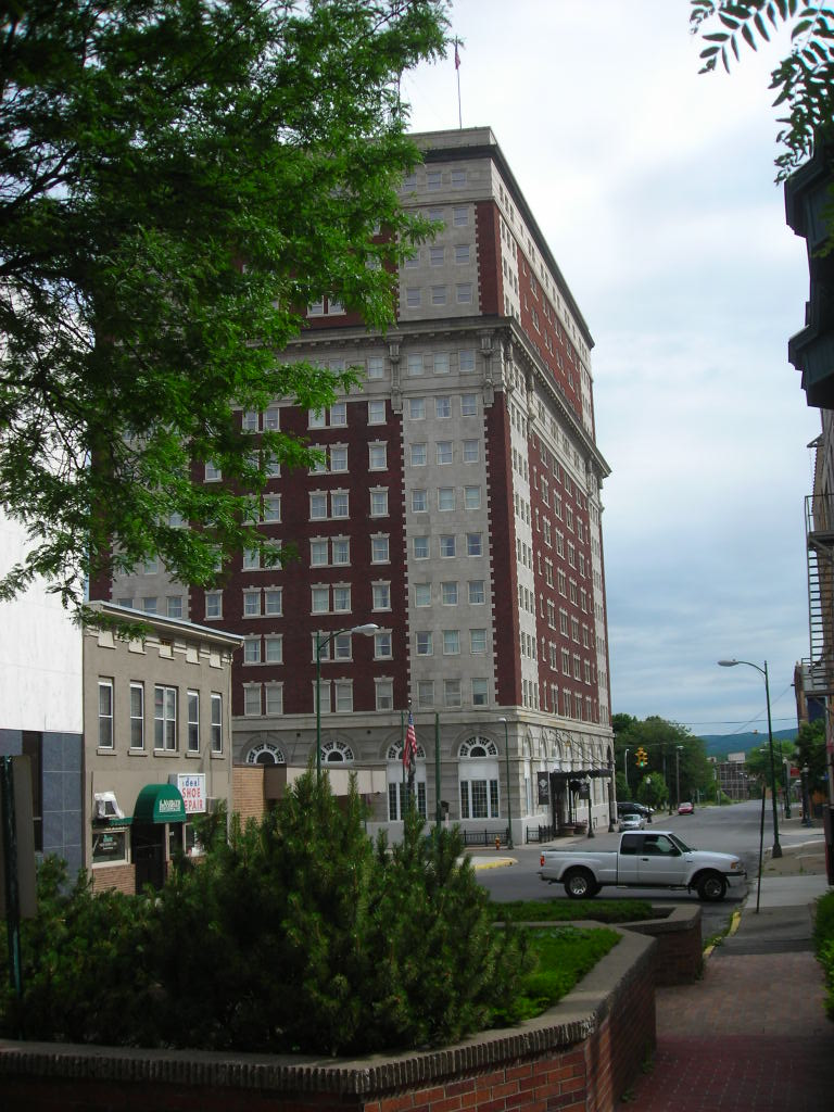 Hotel Utica, at Utica, New York, United States.